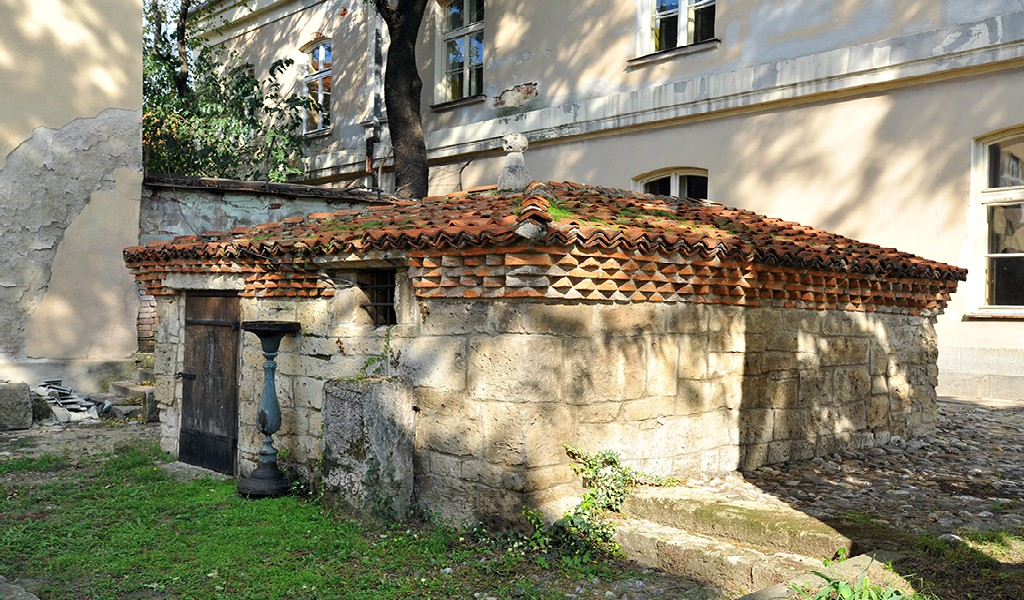 "Barutana" of hajduk Veljko in Negotin- front side